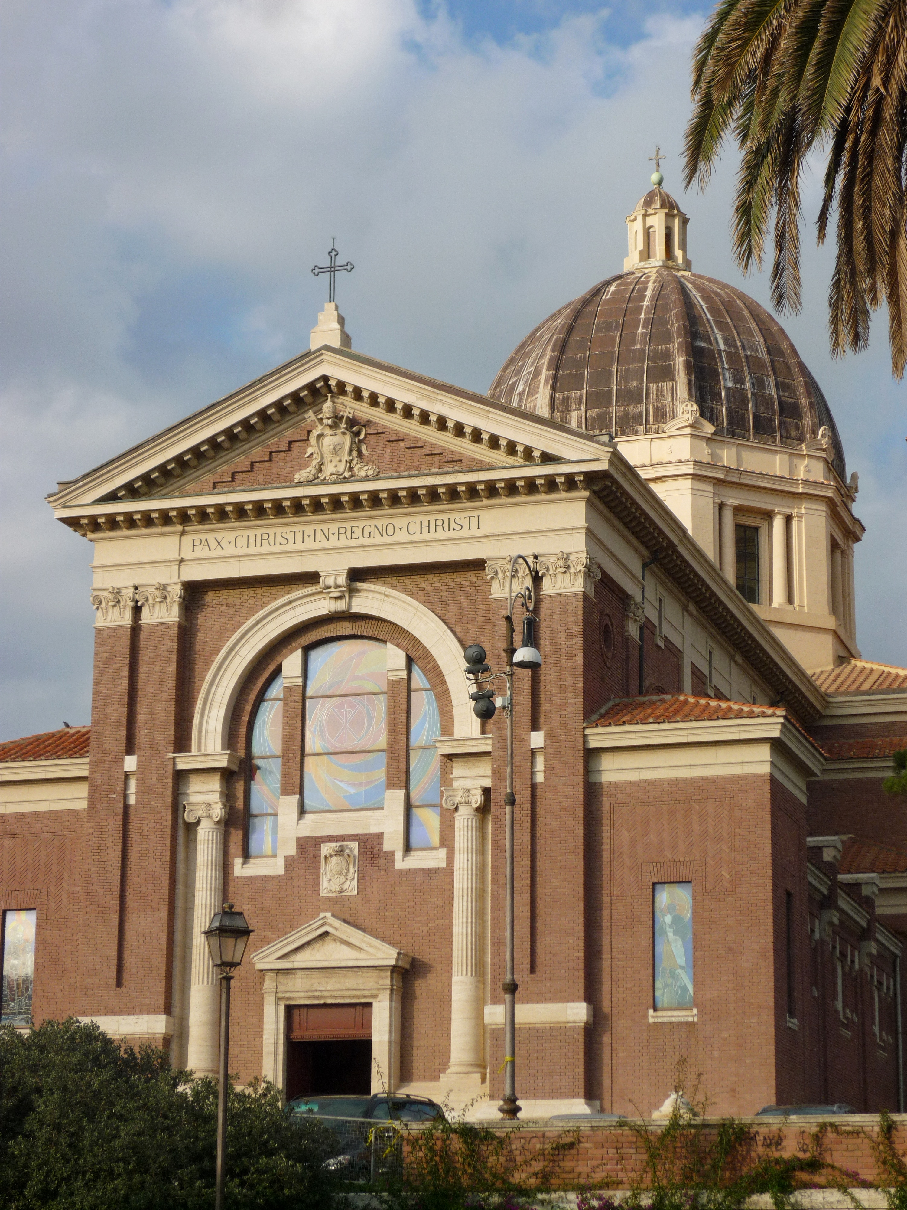 The facade of the church of Holy Mary Queen of Peace (Santa Maria Regina Pacis), Ostia, Italy